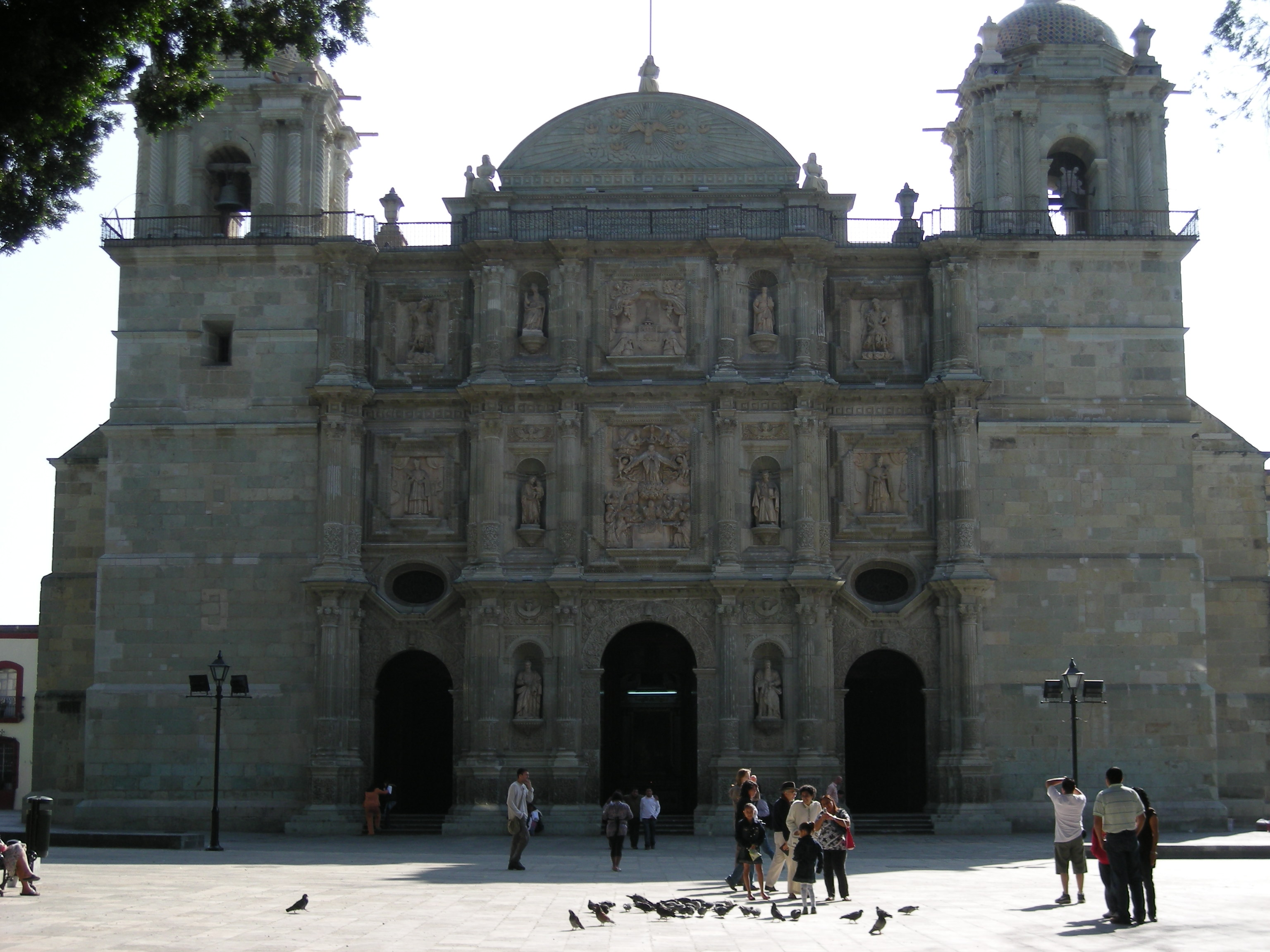 One view of the main facade of the cathedral of Oaxaca city Mexico